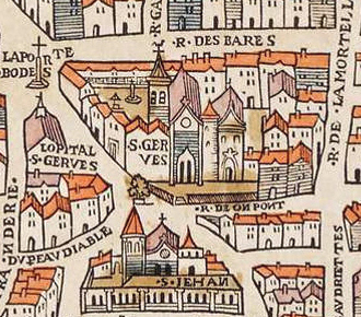 St-Gervais-St-Protais church and rue des Barres on the plan de Truschet and Hoyau (1550).